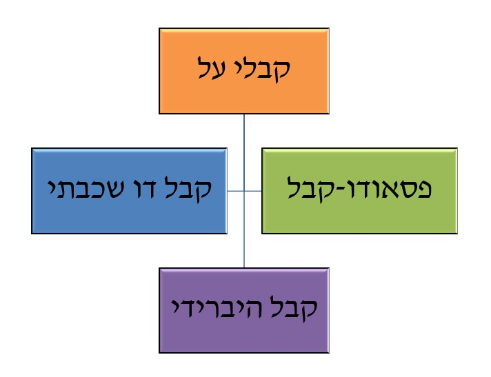 סוגי קבלי על